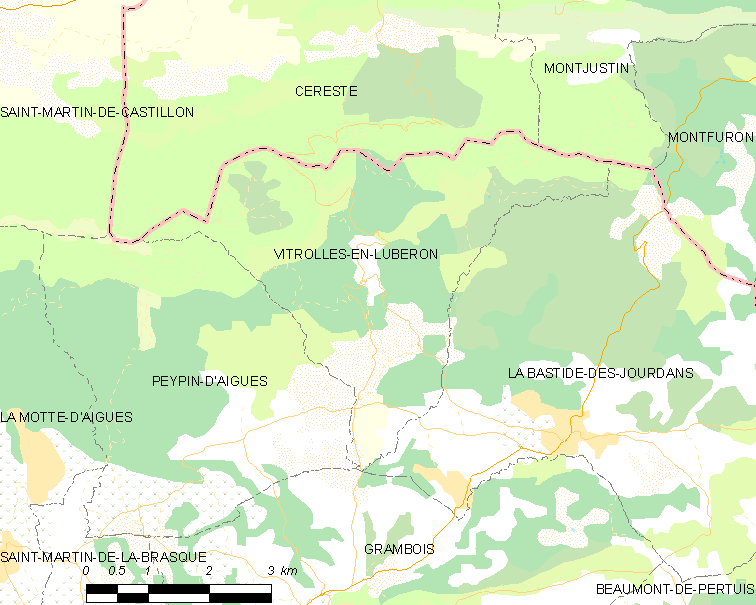 Map of French municipality Vitrolles-en-Lubéron